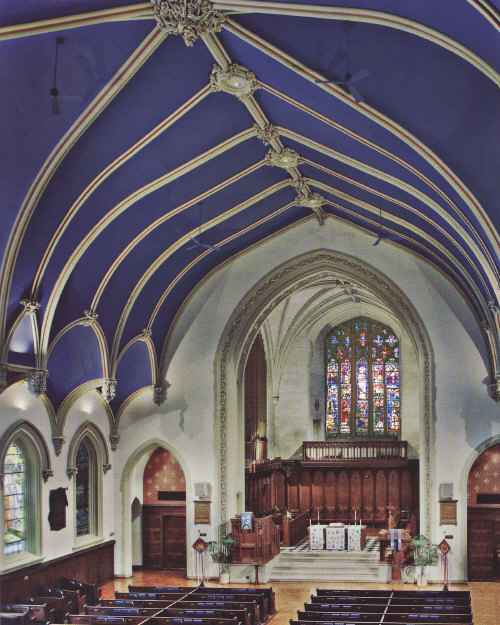 Interior of Brown Memorial Presbyterian Church, Baltimore, Maryland